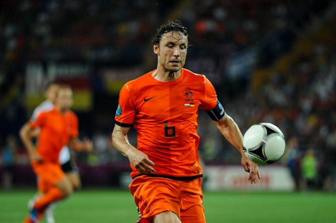 Mark van Bommel at the Euro 2012 match against Germany